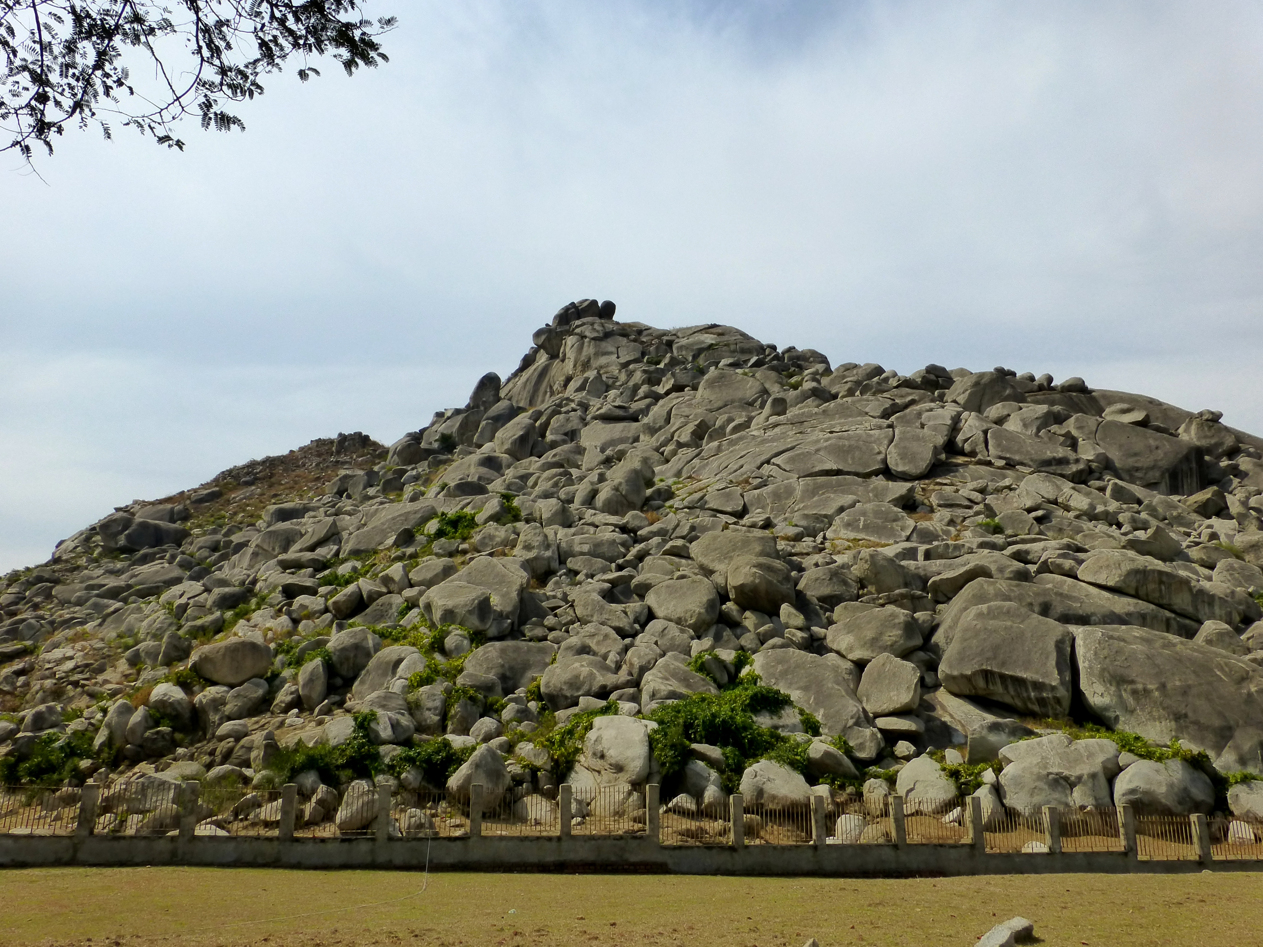 066 Kawa Dol Hill at Barabar, Bihar Photograph from the Barabar Caves in Bihar taken by Anandajoti.